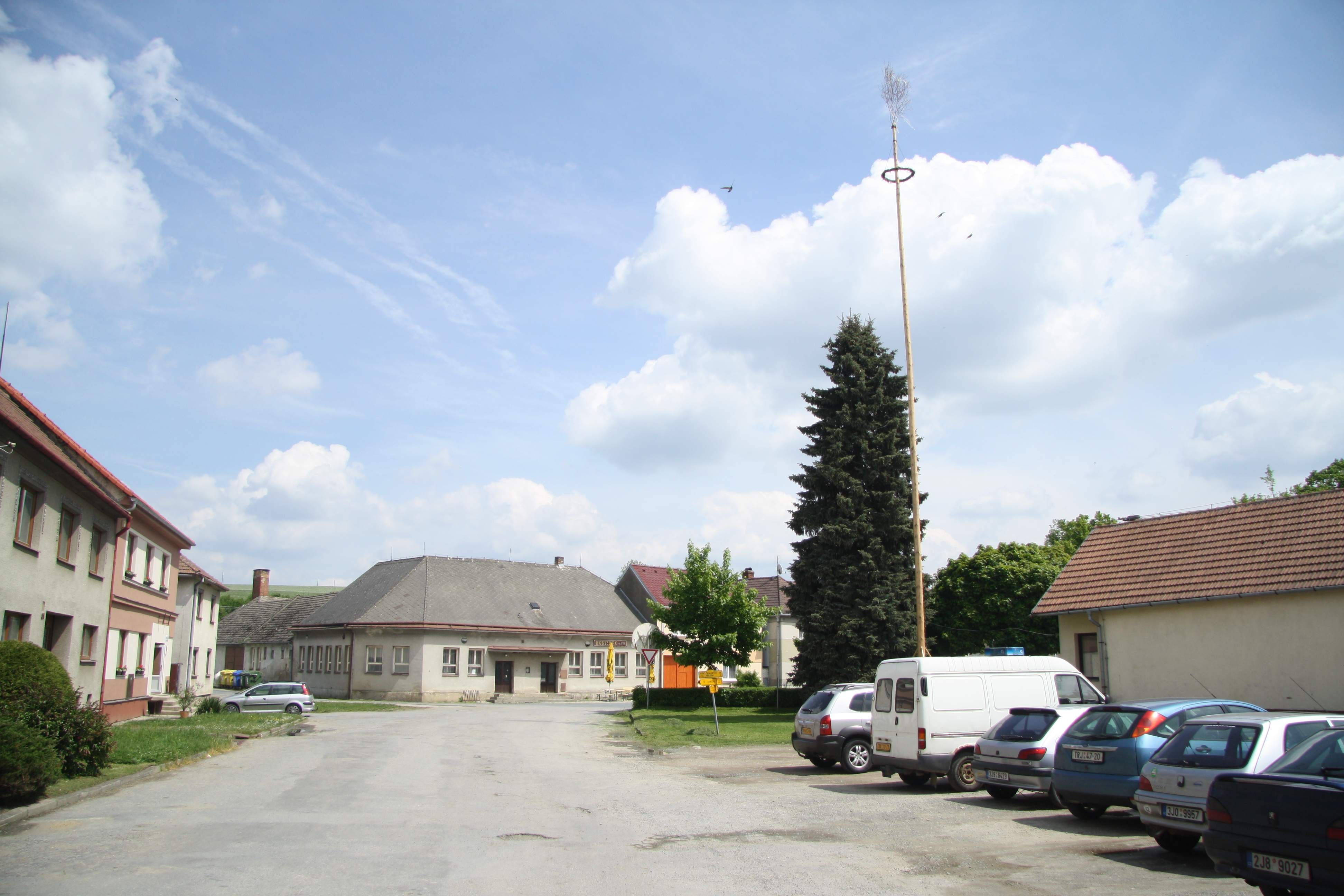 Center of Opatov, Třebíč District.